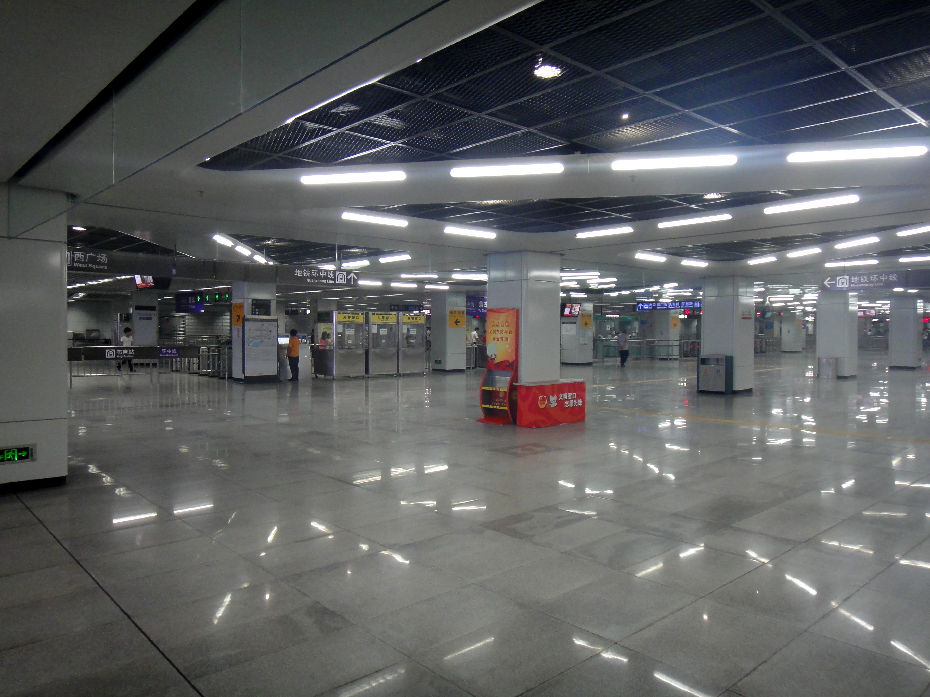 Subway area for the Huanzhoung metro line